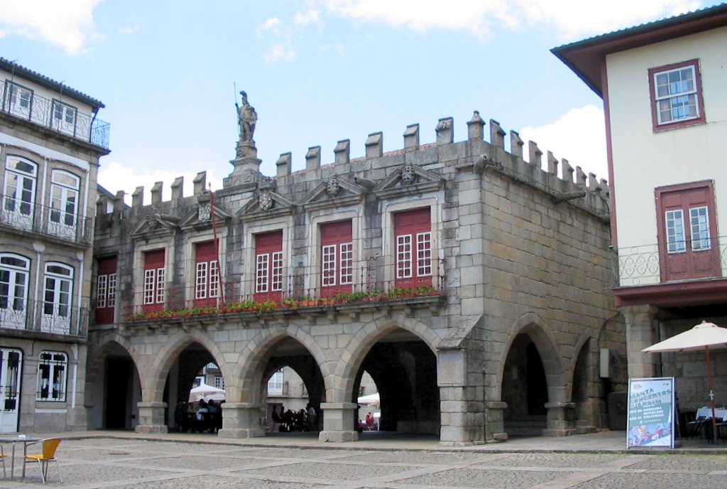 Old Palace Council. Oliveira Square. Historic Centre of Guimarães (Portugal)